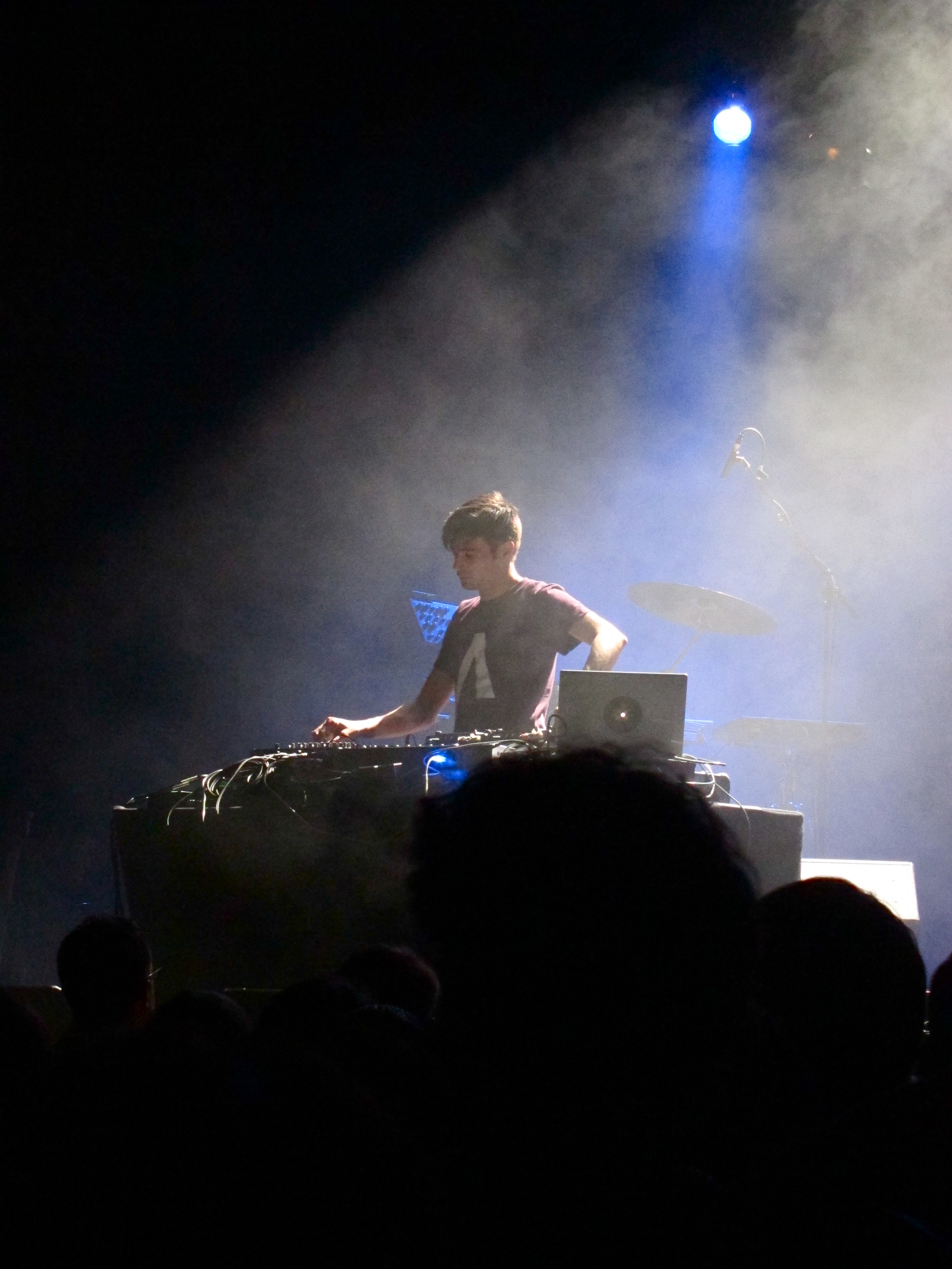 Opening for Royksopp at the Regency Ballroom in San Francisco